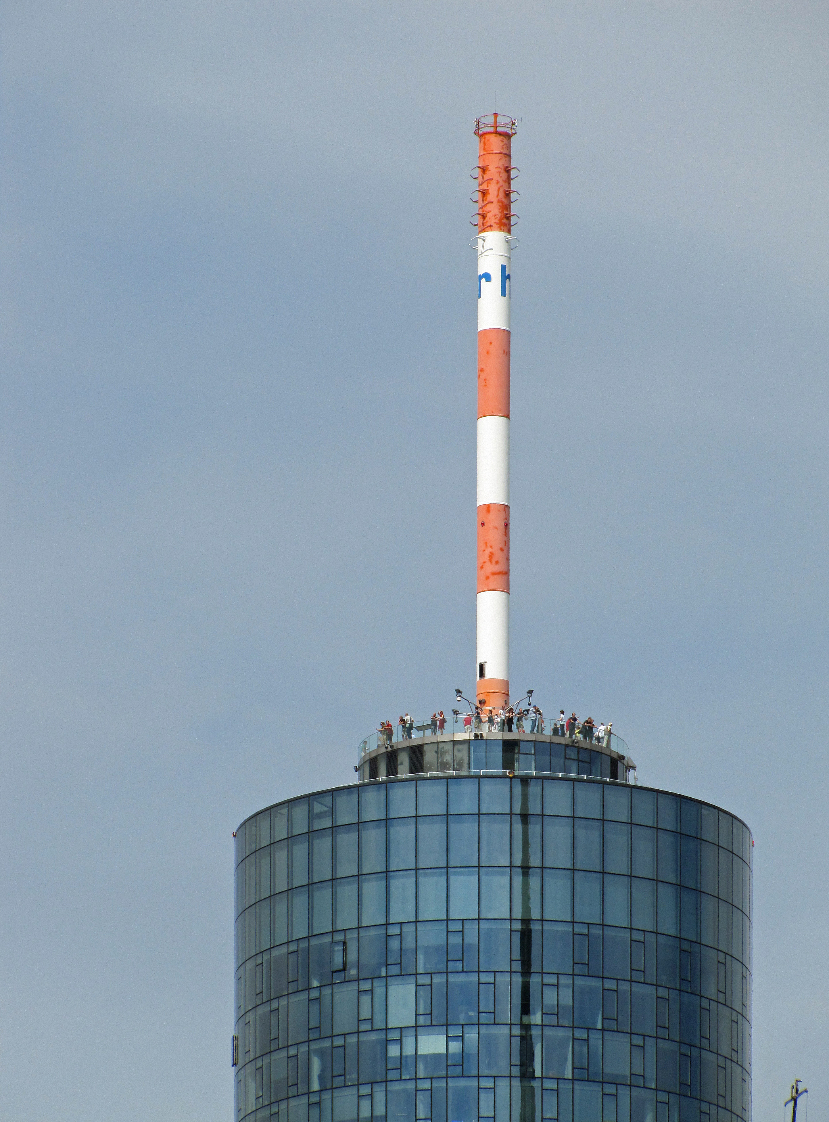 Spire of MAIN TOWER, view from south, in Frankfurt am Main, Germany.